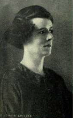 Annie MacDonald Langstaff, 1st woman law graduate from McGill University and one of Canada's first women pilots